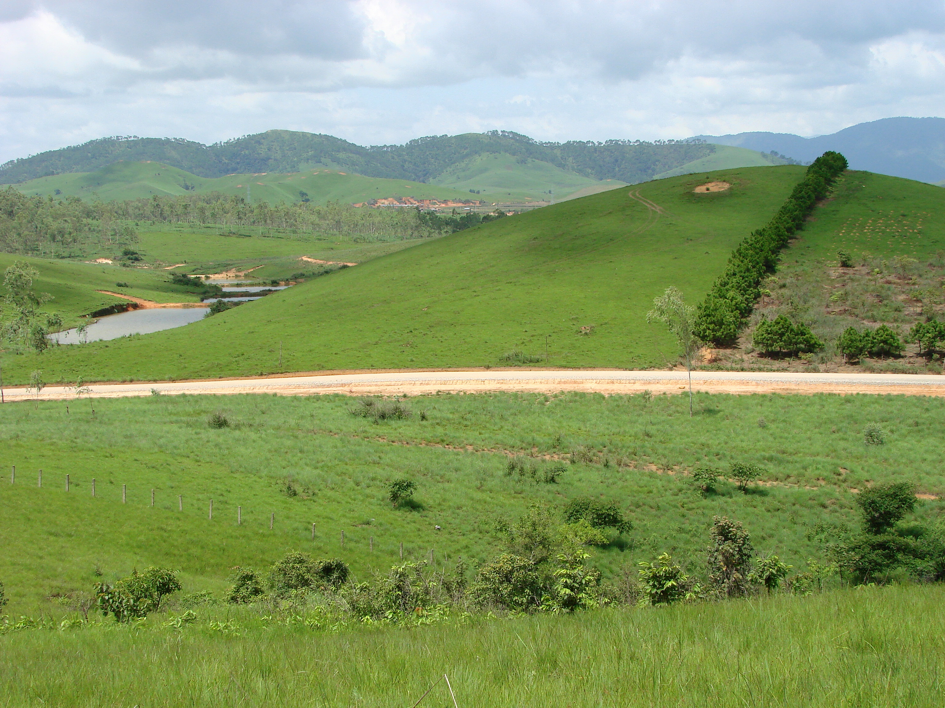 Countryside around Site 2 of the Plain of Jars, near Phonsavanh, Laos. June 2009.